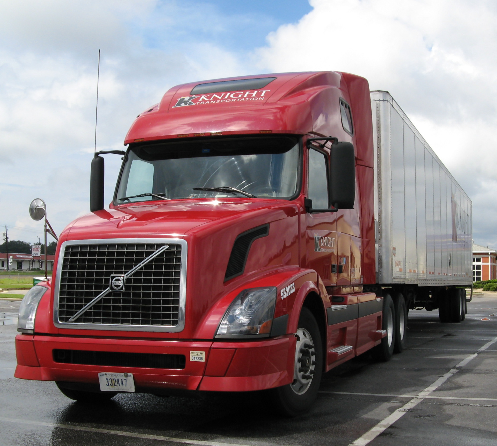 Volvo VN tractor-trailer rig, Gulf Coast Mississippi / 2007